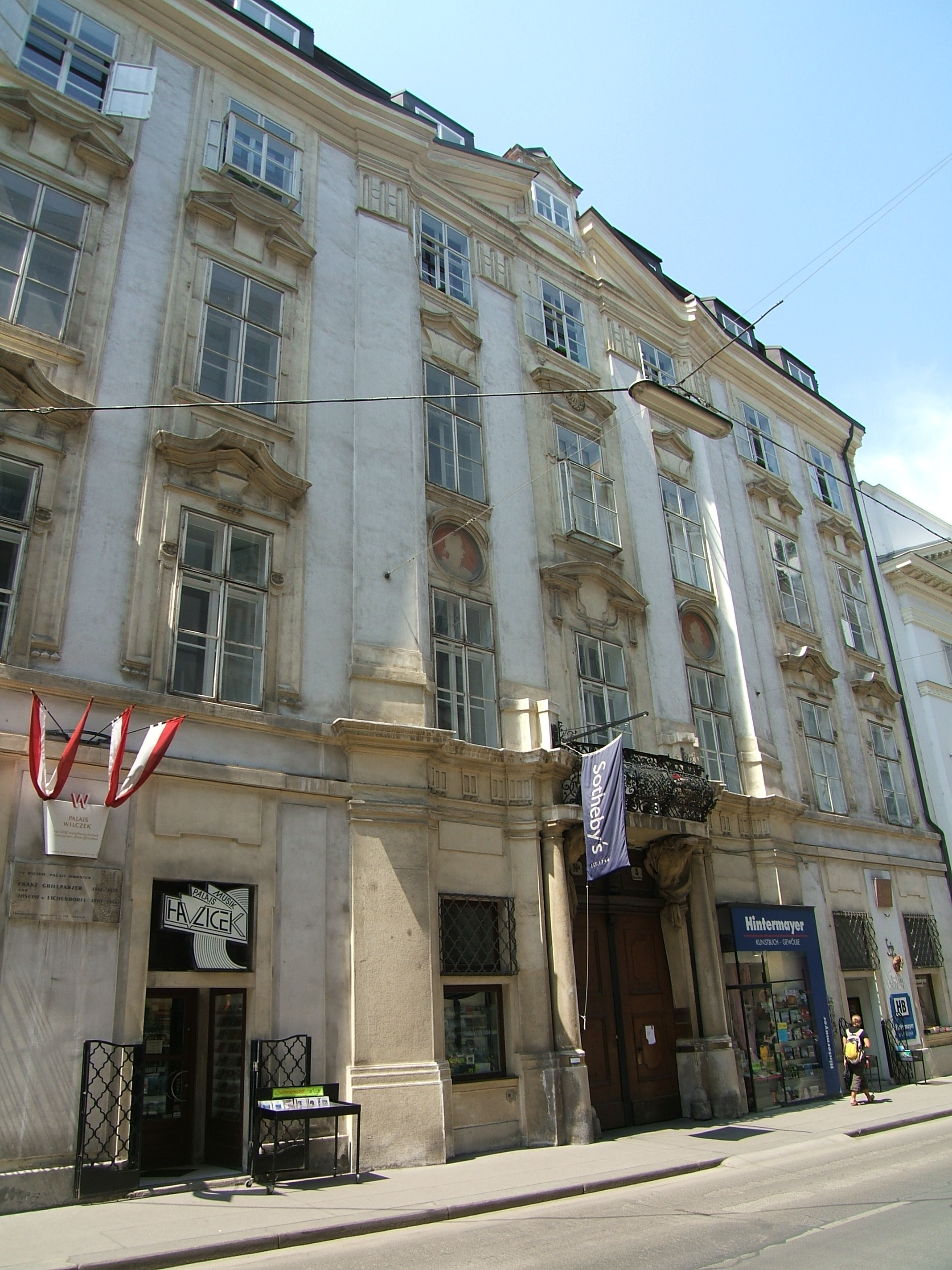 Palais Brassican-Wiczek in Vienna 1st district Herrengasse 5